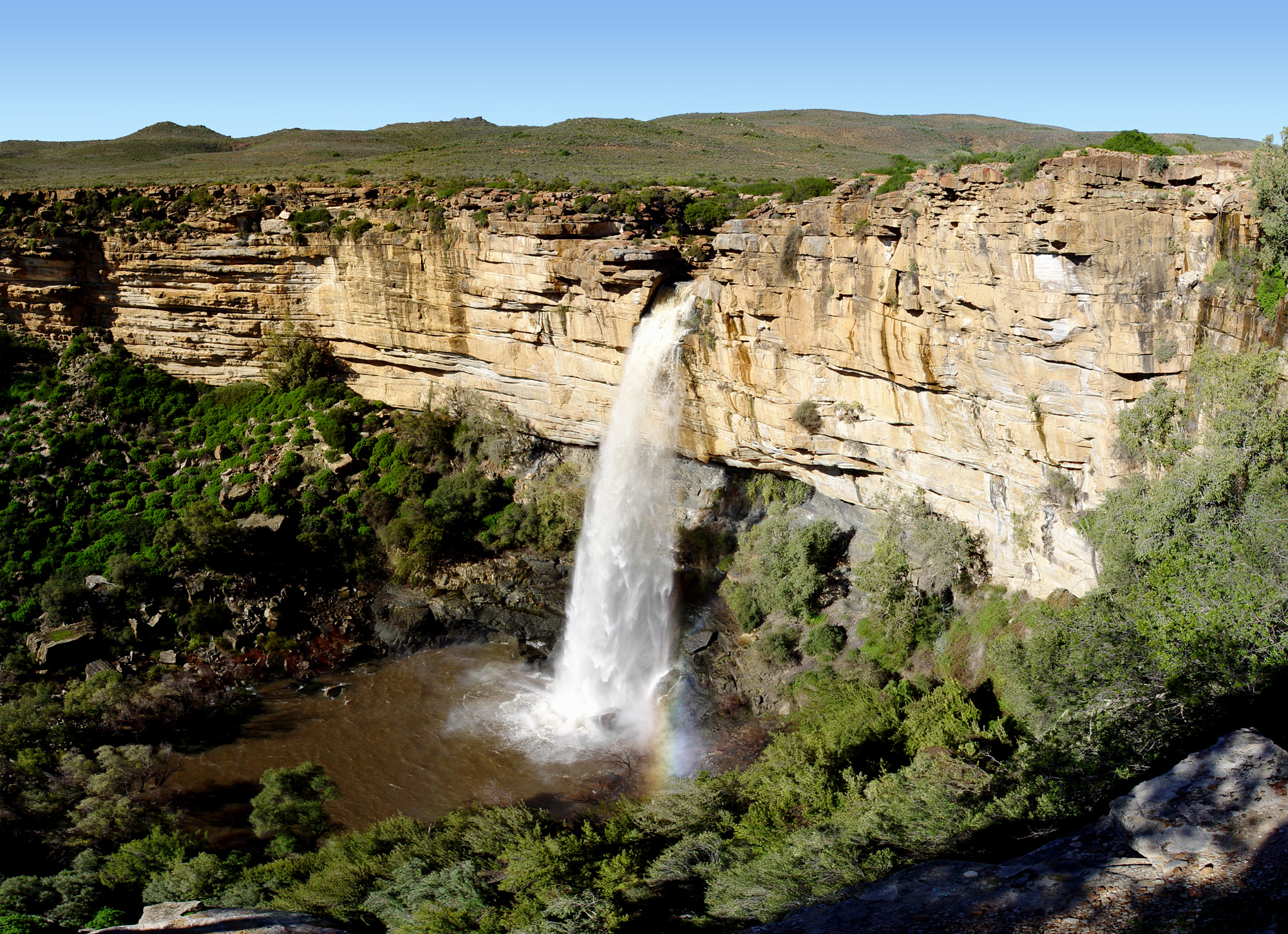 A waterfall situated a few miles north of Nieuwoudtville on the road to Loeriesfontein, 31°19′09″S 19°07′10″E / 31.31917°S 19.11944°E, in the Northern Cape (Namaqualand region), South Africa. The river plunges through an opening in the rock down a precipice of approximately 90 metres.